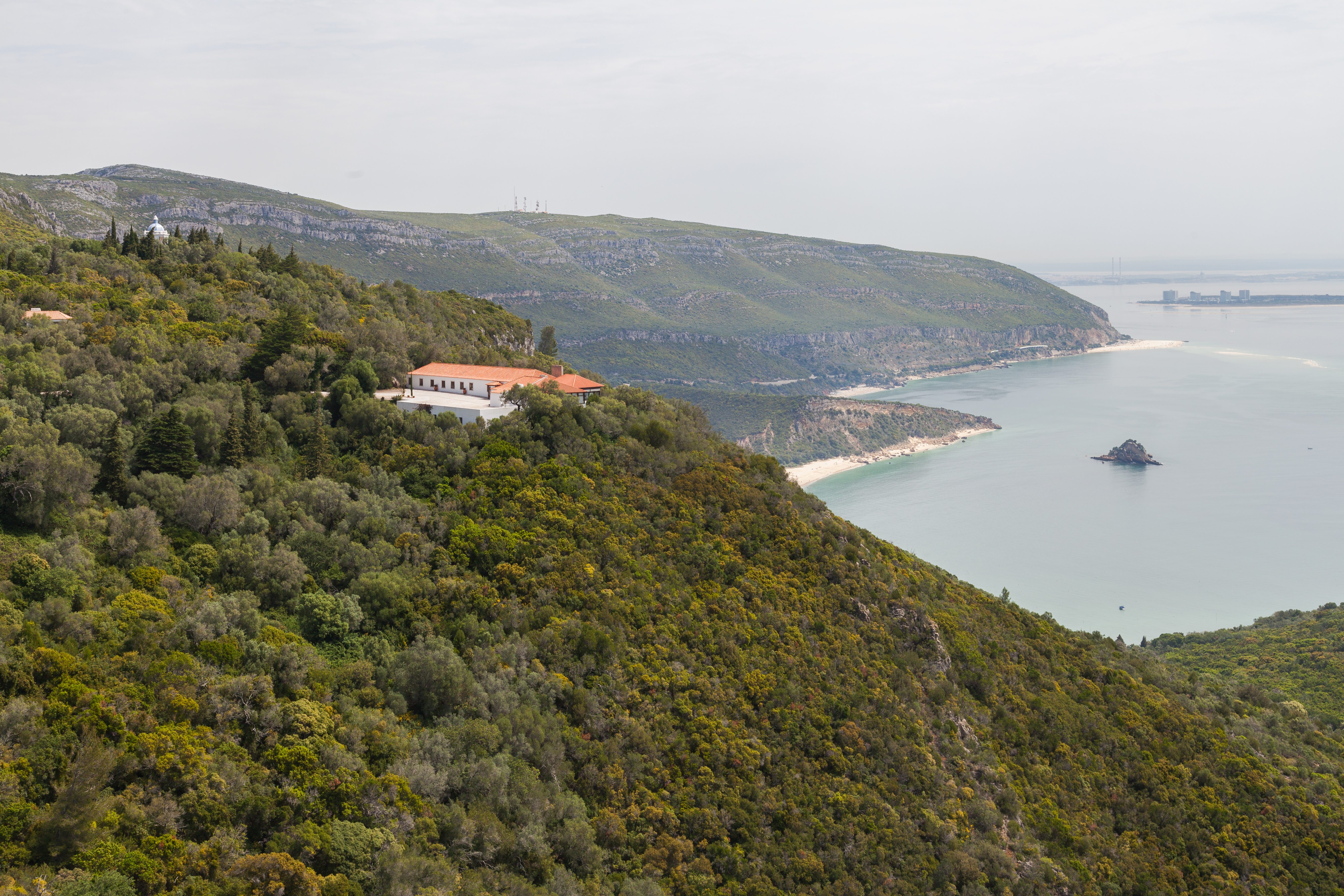 Natural Park of Arrabida, Setubal, Portugal